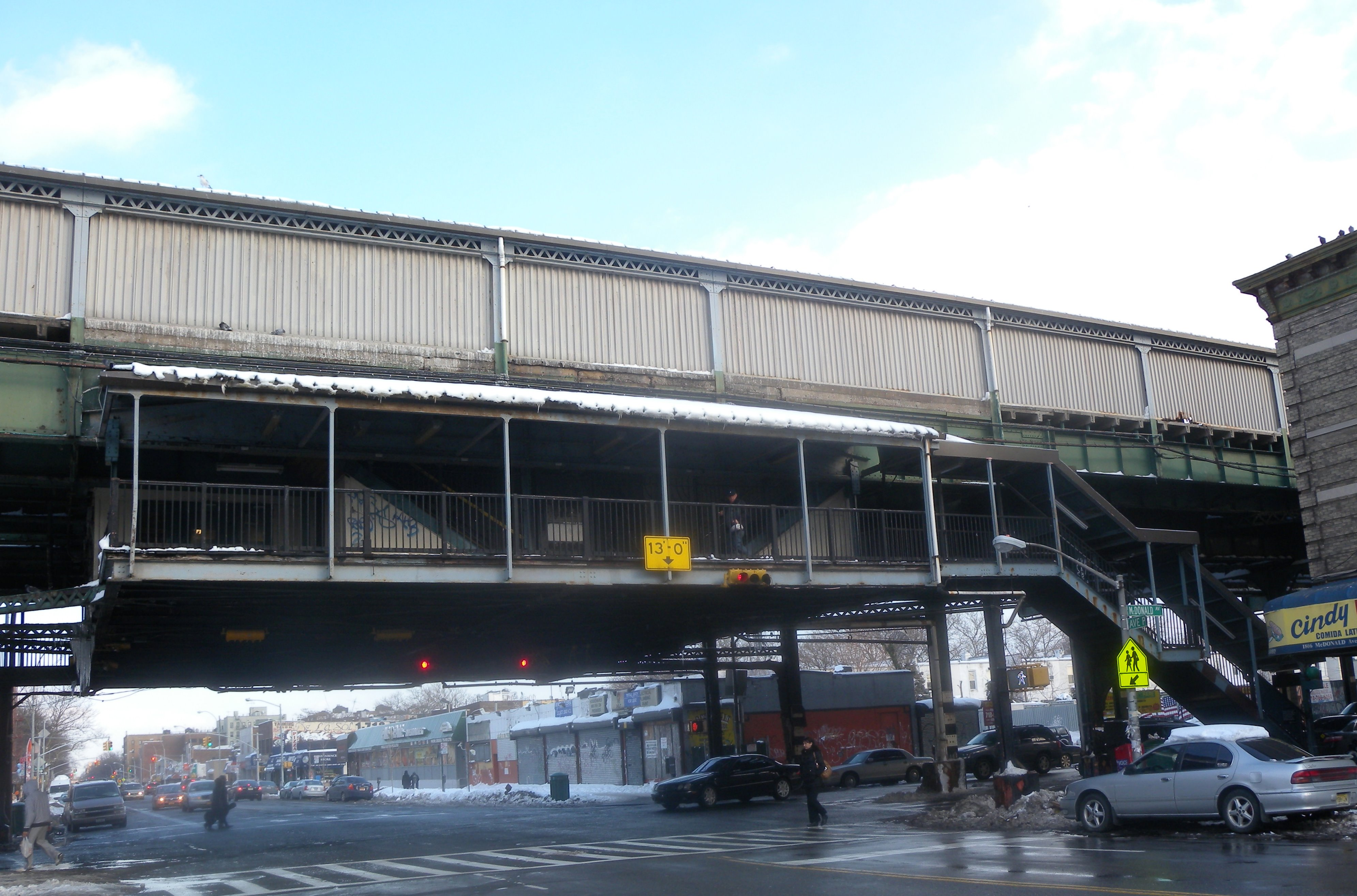 Looking east at Avenue P station on a mostly cloudy day after snow.